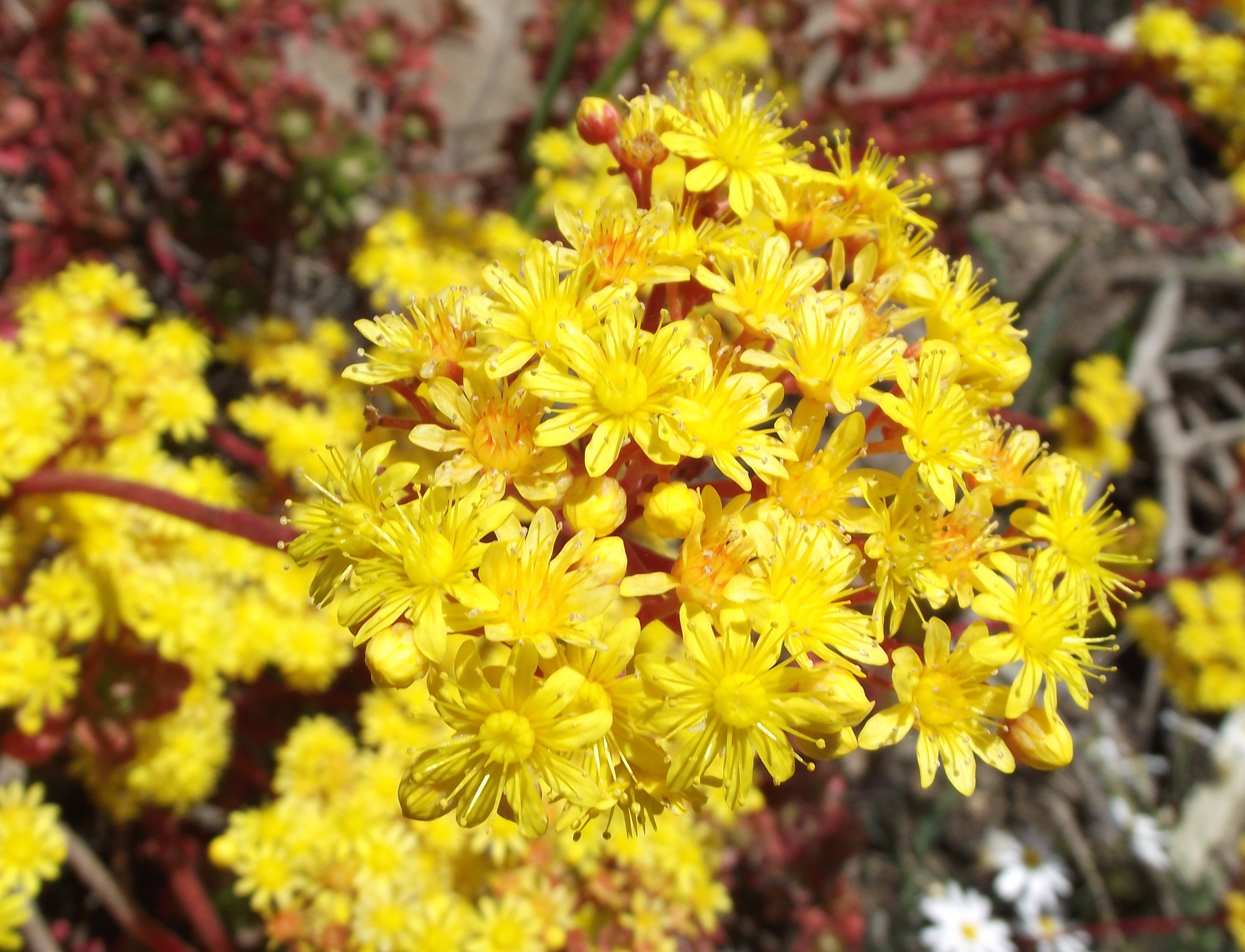 Aeonium spathulatum in the UC Botanical Garden, Berkeley, California, USA. Identified by sign.